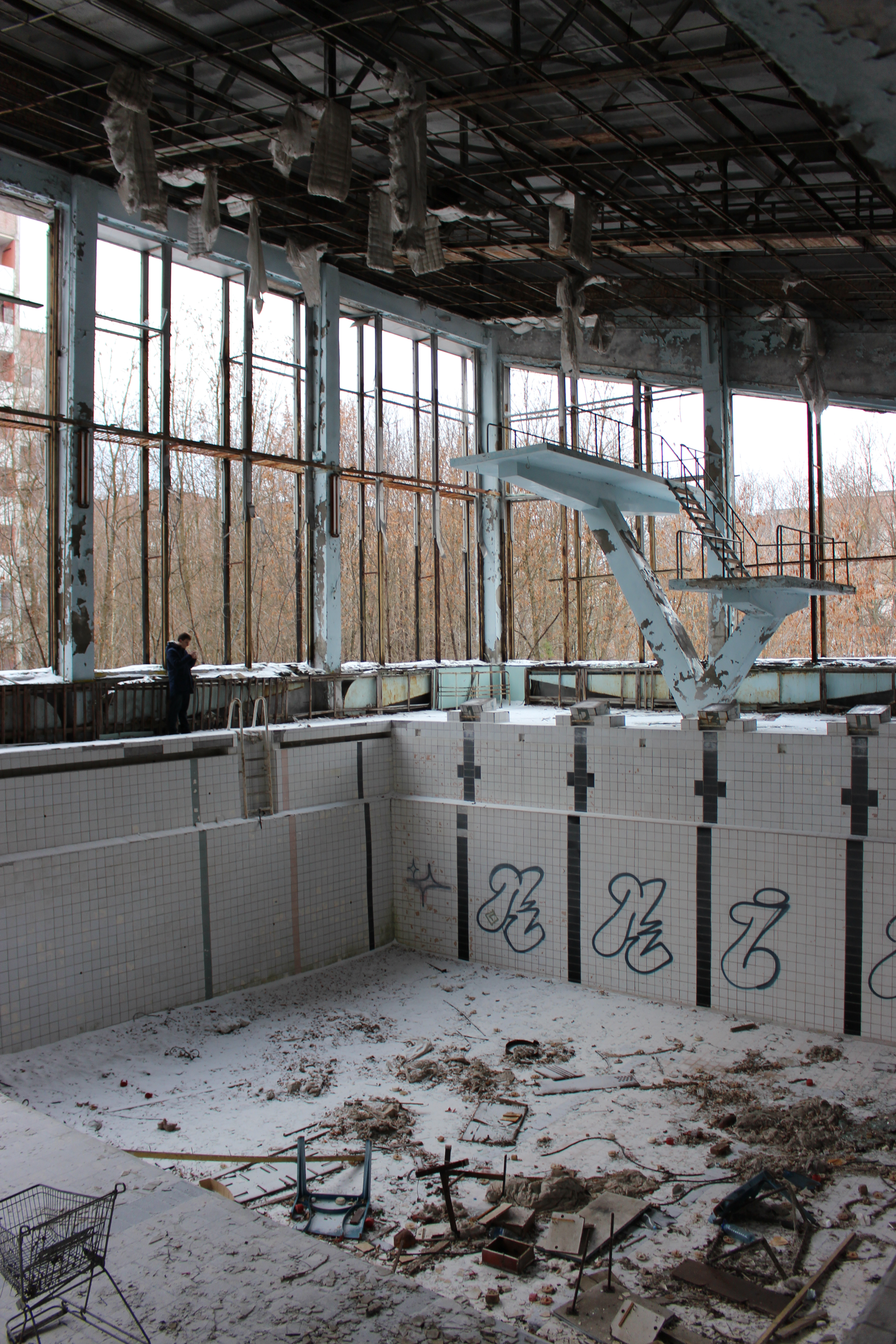 Chernobyl Exclusion Zone.